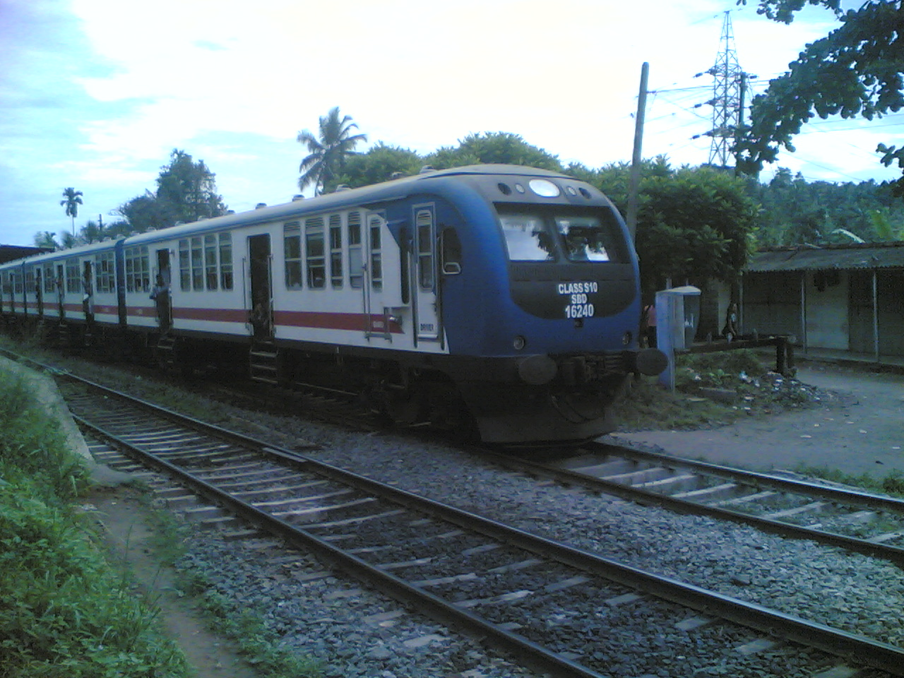 Sri Lanka Railways' Class S10 Diesel Multiple Unit Locomotive On Batuwatte In A Christmas Morning